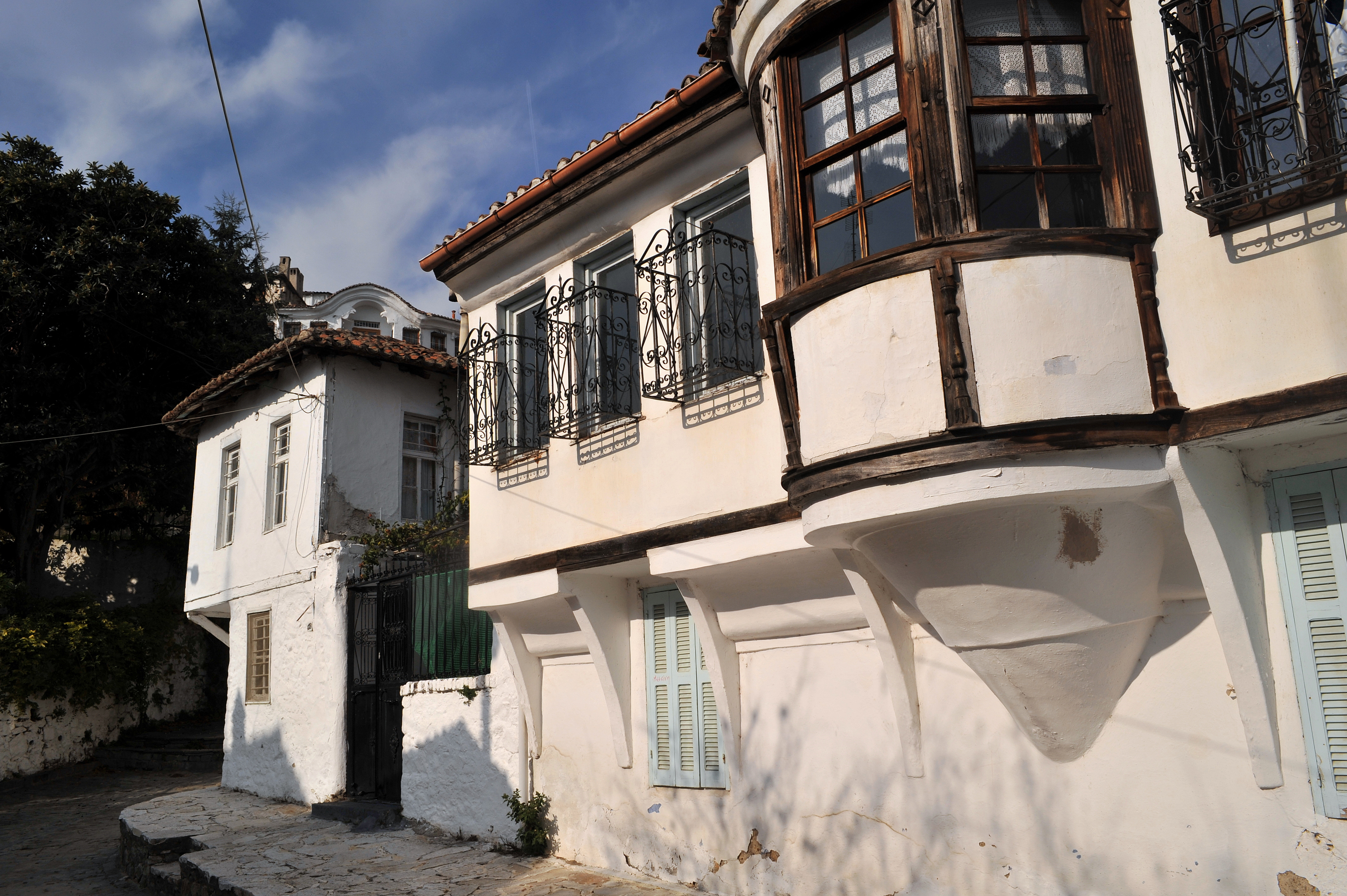 Old town - Xanthi - West Thrace, Greece.